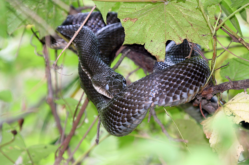 A B\black rat snake (Elaphe obsoleta obsoleta). The keeled scales, white chin and lighter ventral scales are keys to identifying it. Notice the opaque (blue) eyes which mean the snake is in "molt" and will shed its skin in a week or so.